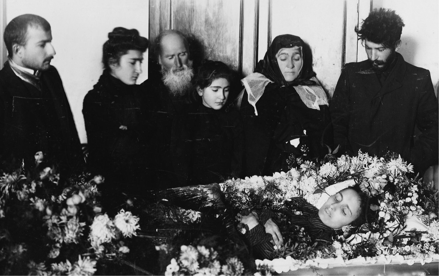 Funeral of Kato Svanidze, first wife of Iosif Stalin (right)